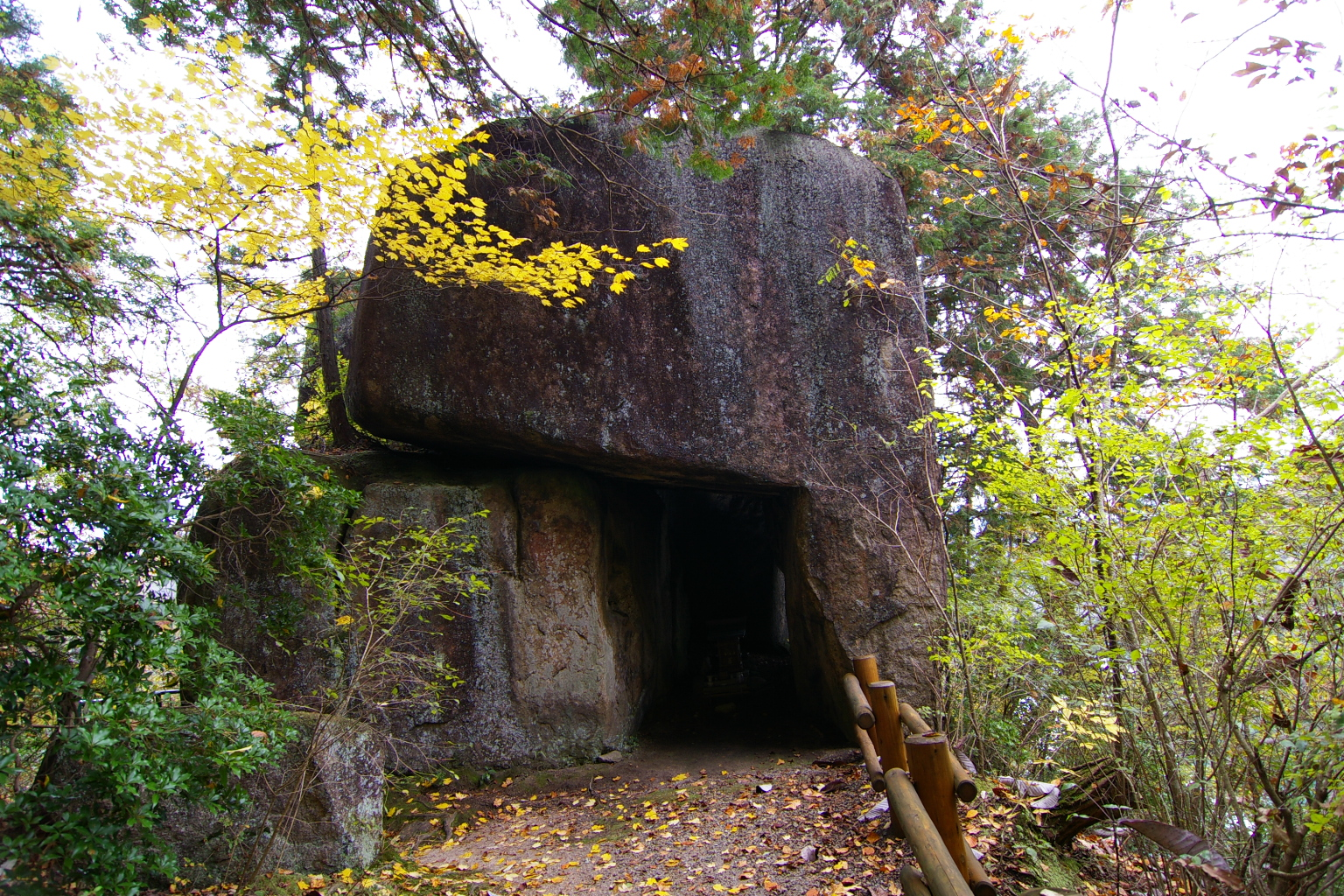 Gensai Rock